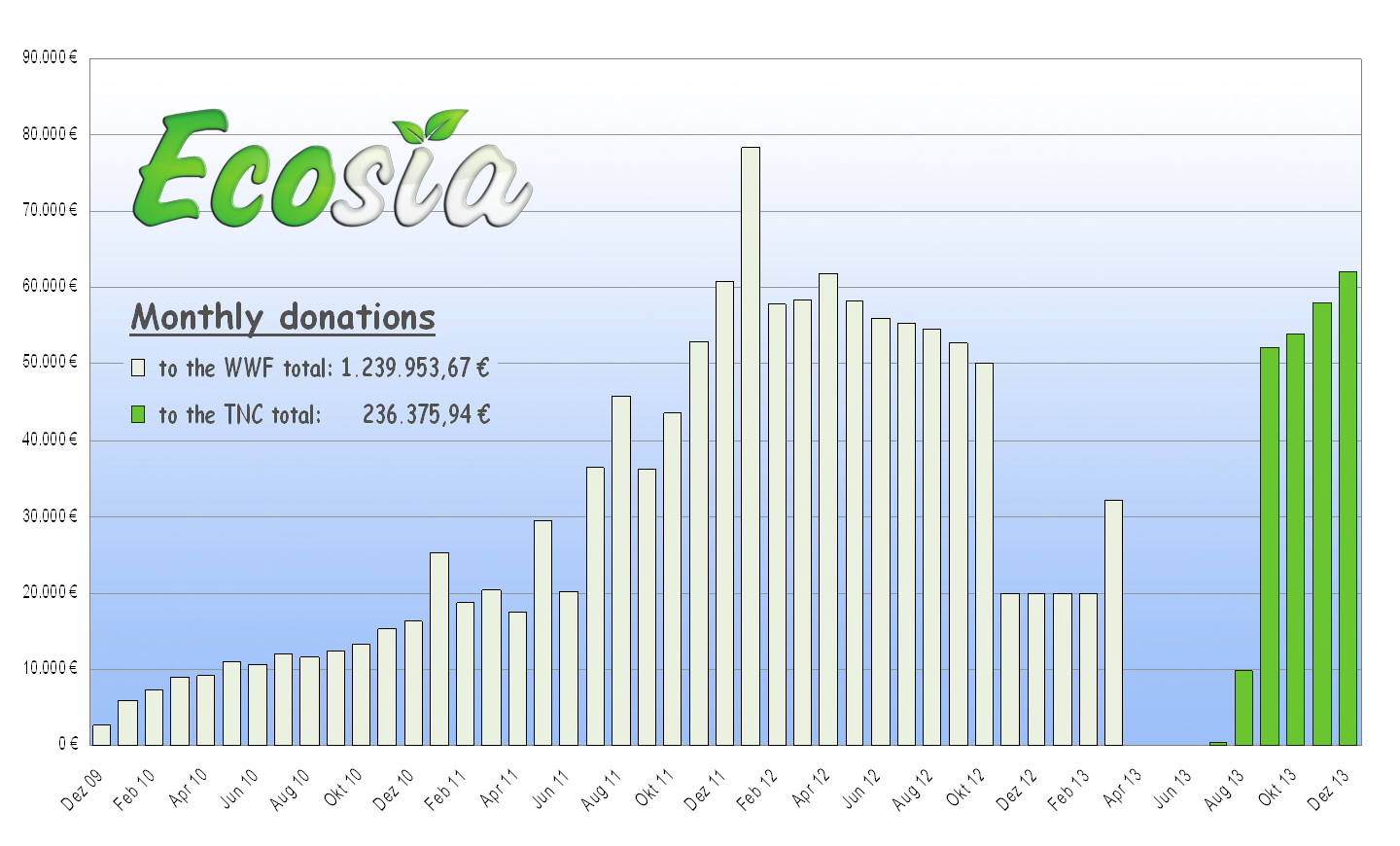 This graph shows the Ecosia's monthly payments to the WWF and to the TNC.